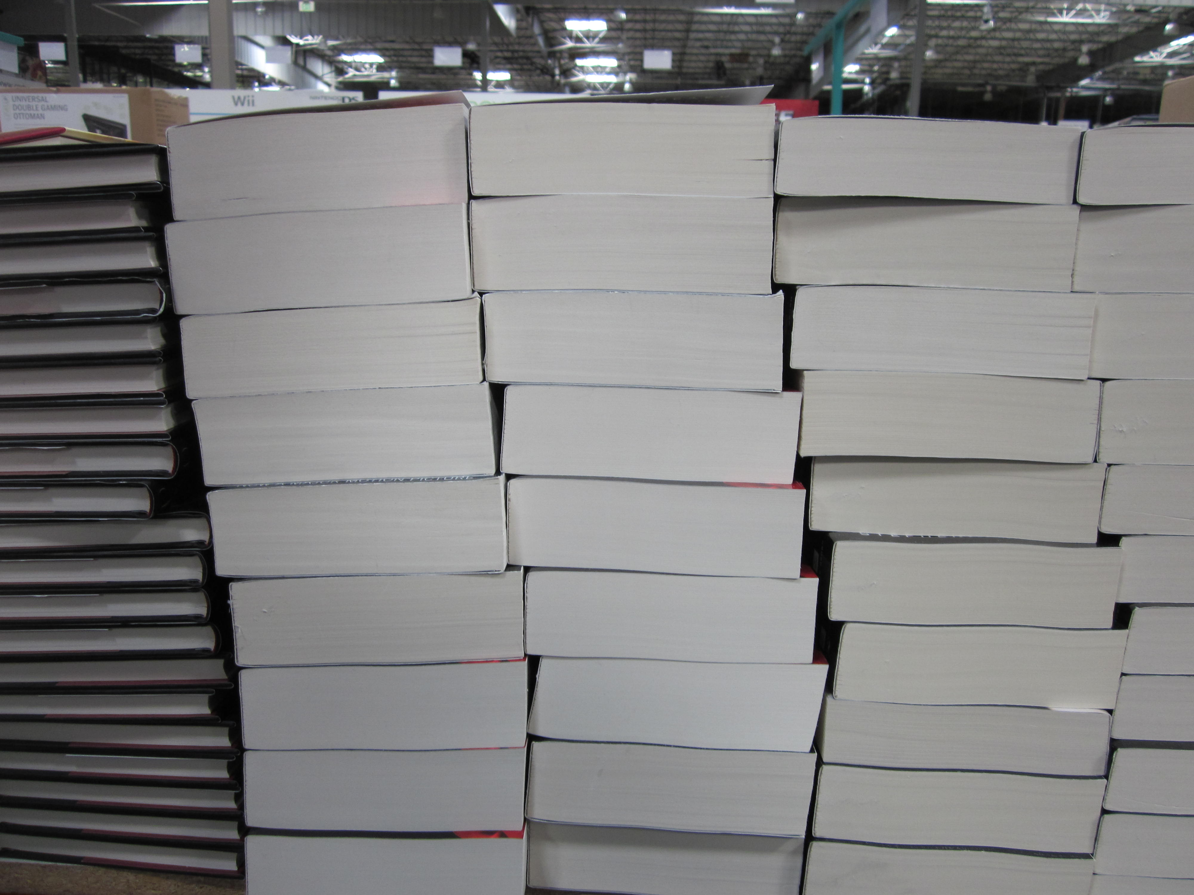 Paperback copies of the Twilight series by Stephenie Meyer at Costco in South San Francisco, California on El Camino Real.